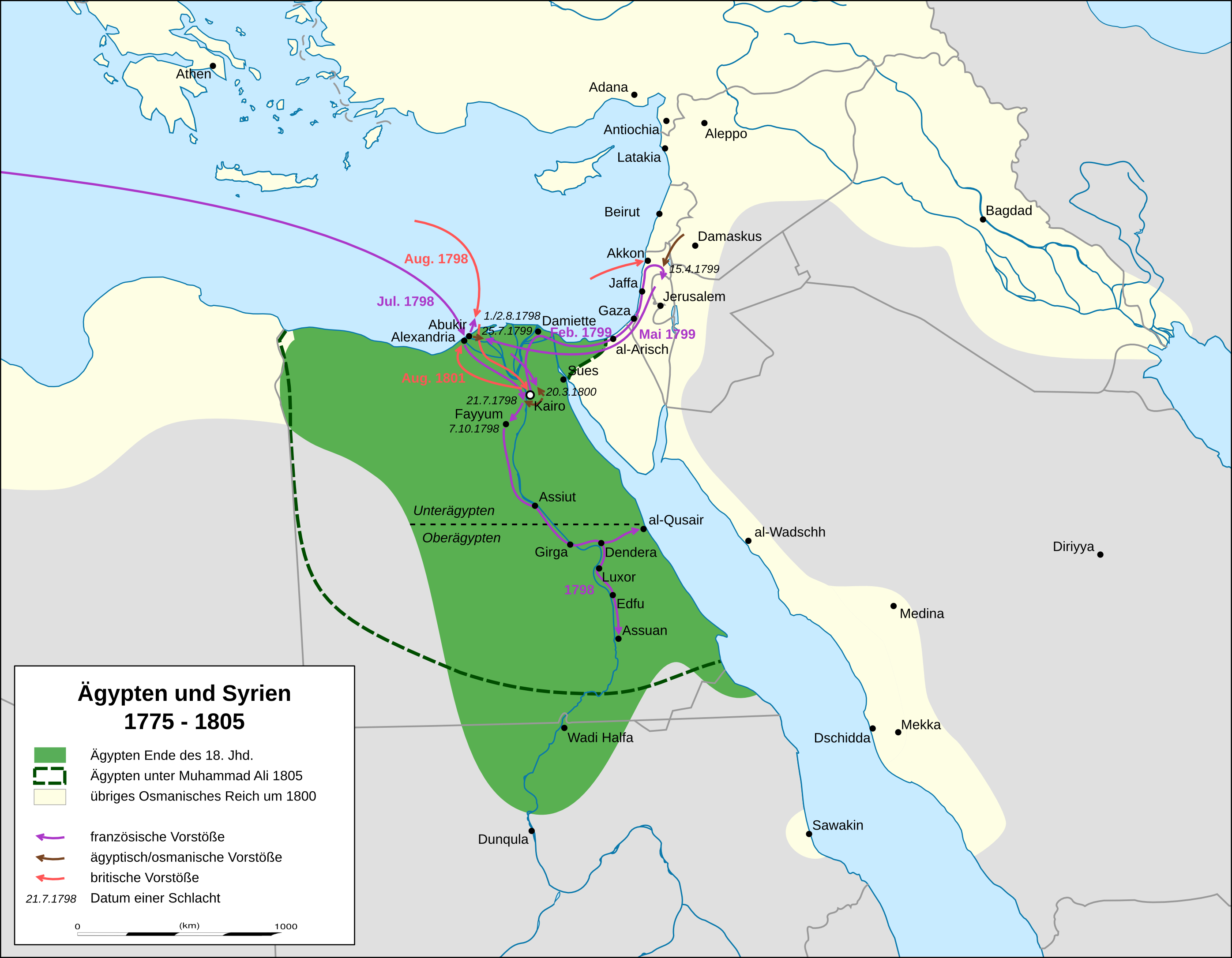 map of egypt and syria from 1775 to 1805.